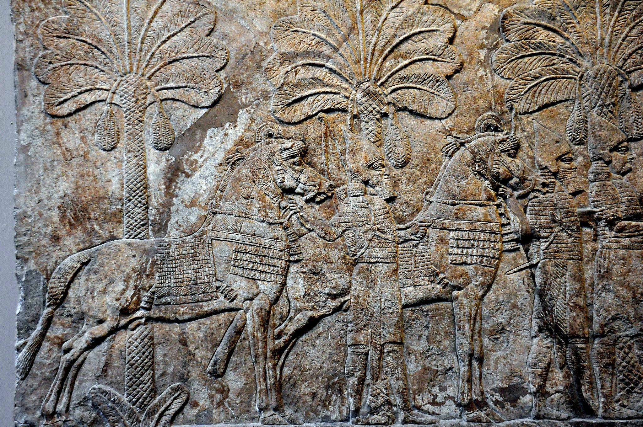 Assyrian military campaign in southern Mesopotamia, 640-620 BC. The horses, soldiers, and the palm trees were exquisitely carved. Alabaster bas-relief from the South-West Palace at Nineveh, in modern-day Nineveh Governorate, Iraq. The British Museum, London.